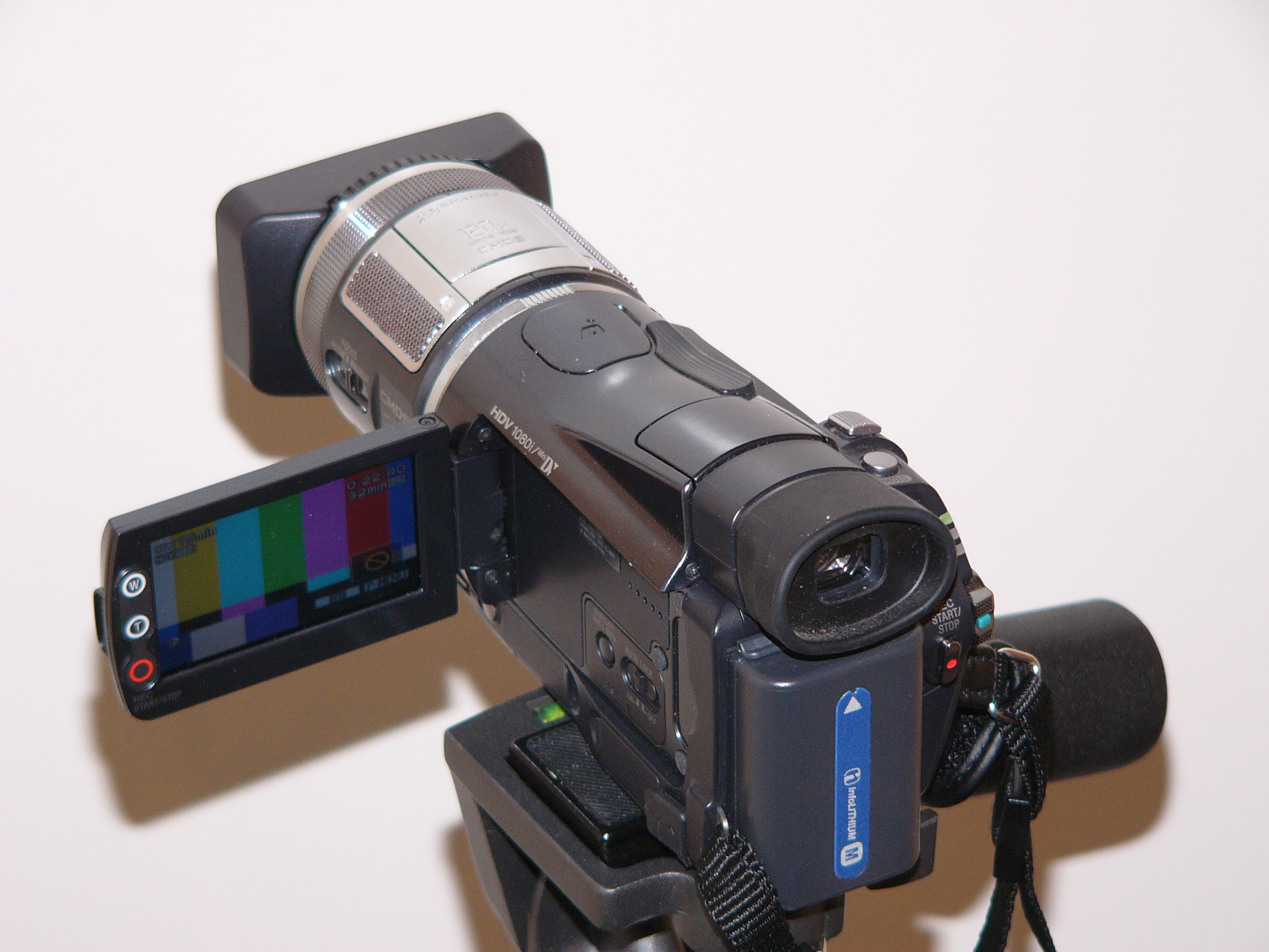 Sony HDR-HC1E Camcoder